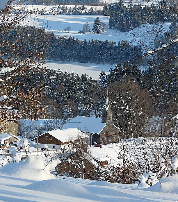 The small Church of Linsen from about 1450. Above ist the frozen white lake.